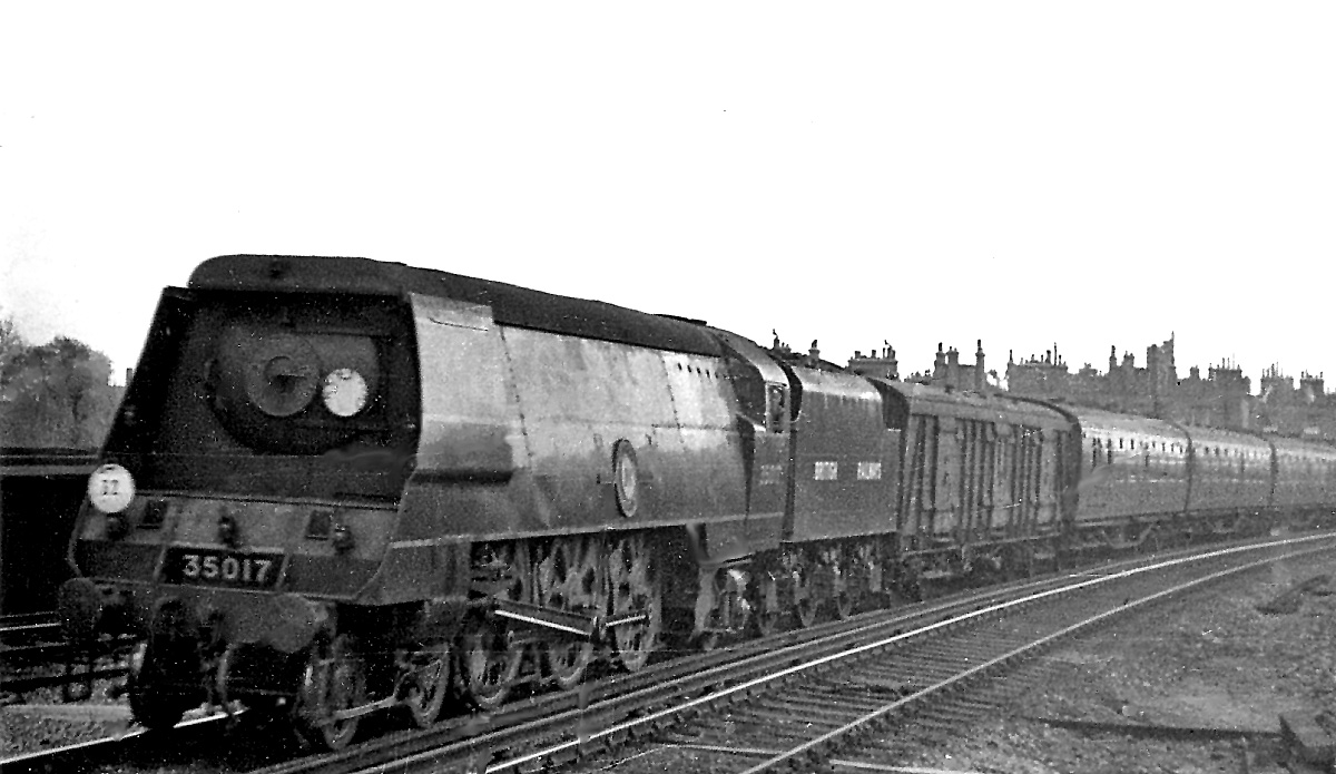 Bulleid Pacific approaching Vauxhall during 1948 Exchange trials. View southward, towards Clapham Junction etc.: ex-LSW main lines into Waterloo. No. 35017 'Belgian Marine' (built 4/45, rebuilt 3/57, withdrawn 7/66) was one of two of the class chosen for the 1948 Trials (cf. TQ3083 : SR Bulleid Pacific leaving King's Cross during 1948 Exchange Trials) and fitted with LMS tenders with water pick-up apparatus. Here it is on a preliminary run with the 13.05 express from Bournemouth West.